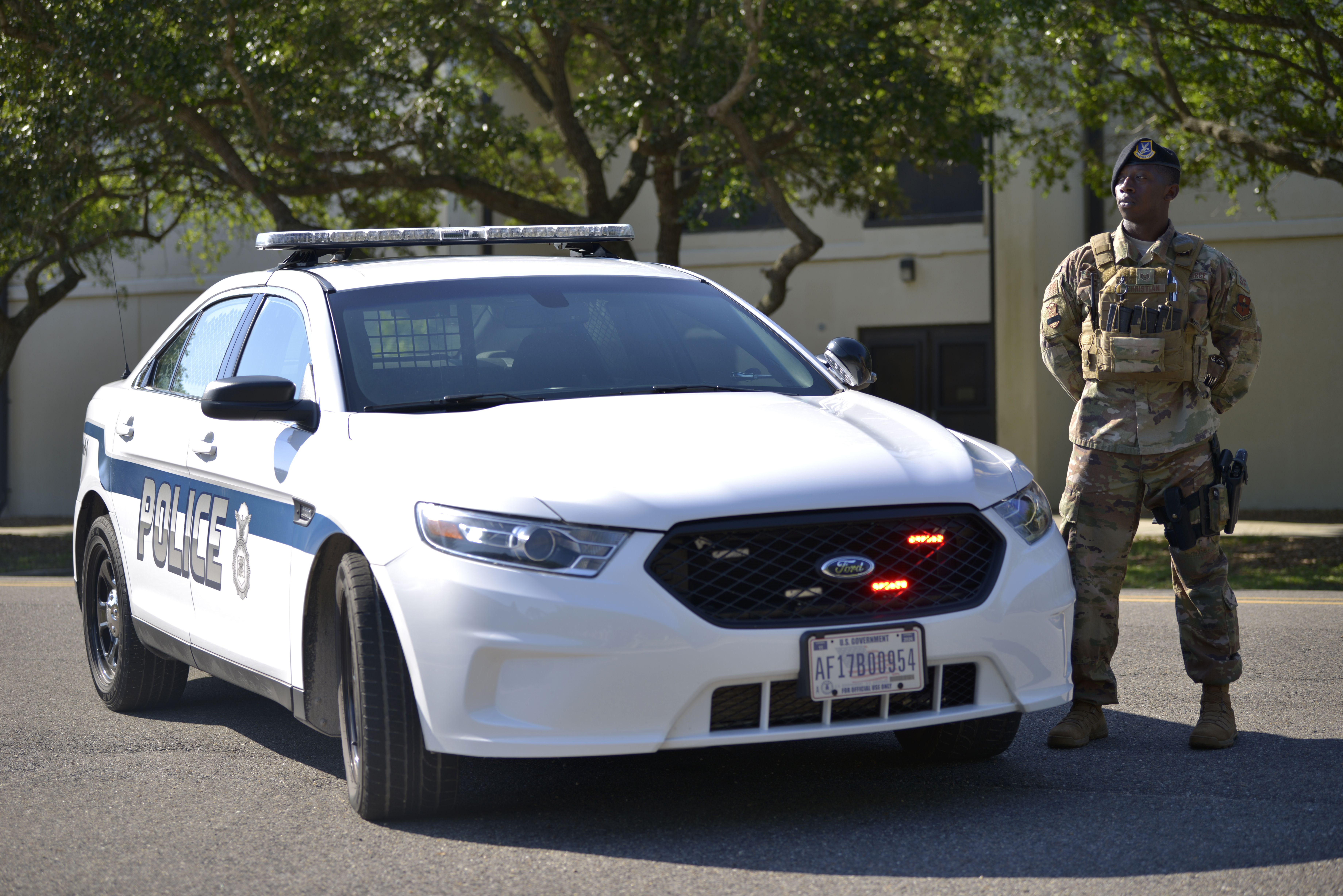 U.S. Air Force Staff Sgt. Tradarius Christain, 81st Security Forces Squadron Vehicle Control Officer, stands by patrol vehicle during the 81st SFS retreat ceremony at Keesler Air Force Base, Mississippi, May 17, 2019. The ceremony concluded Police Week, which honors law enforcement personnel and recognizes the dangers and risks they face everyday. (U.S. Air Force photo by Airman Seth Haddix)